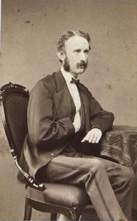 Georg Theodor Hindenburg (1839-1919), Danish jurist